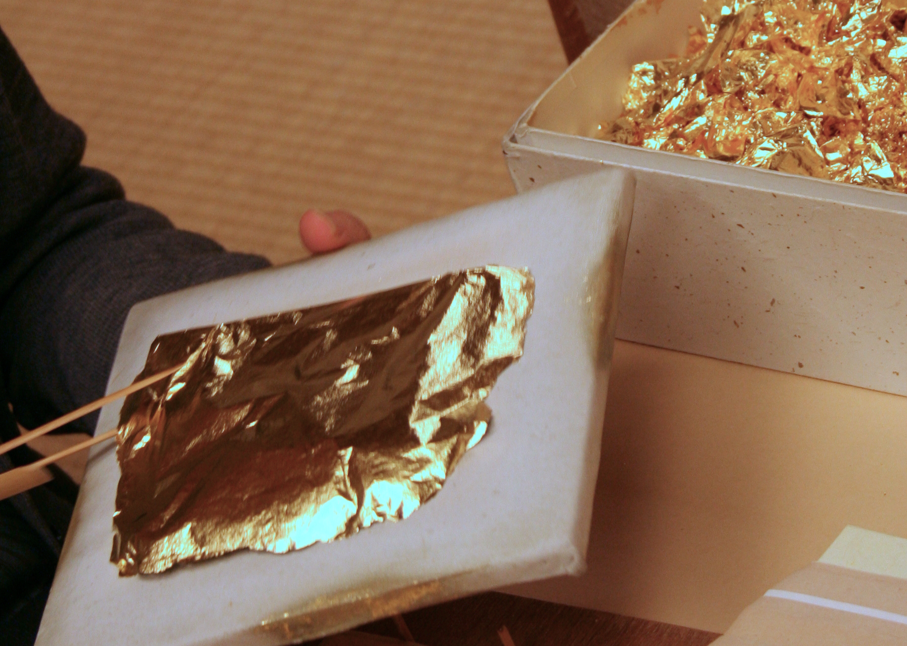 Gold Processing at a workshop in Kanazawa, Japan